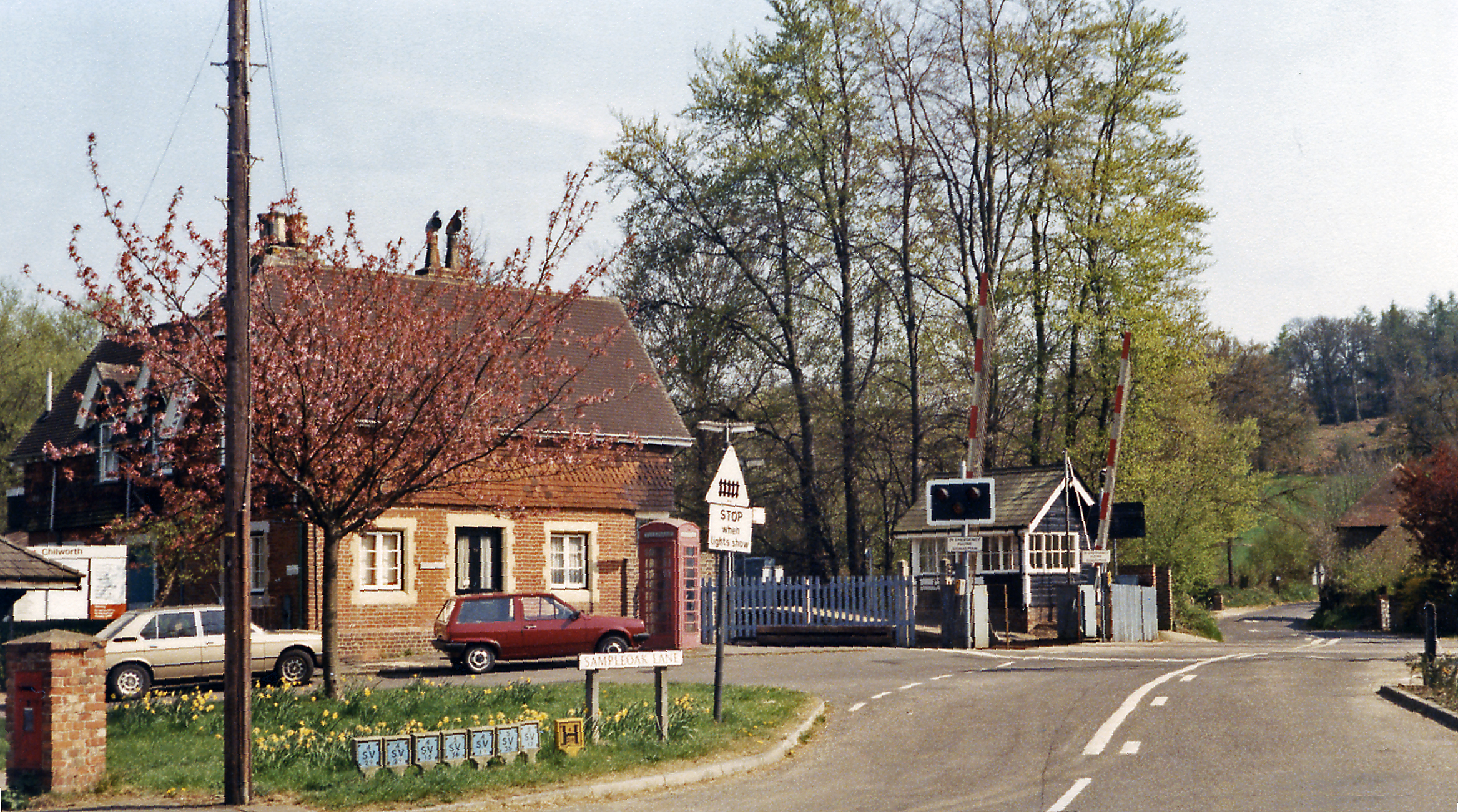 Chilworth & Albury station and crossing, 1984. View southward over the crossing off the A248: ex-SE&CR Redhill (to left) - Guildford (to right) - Reading line, the station being on the left.